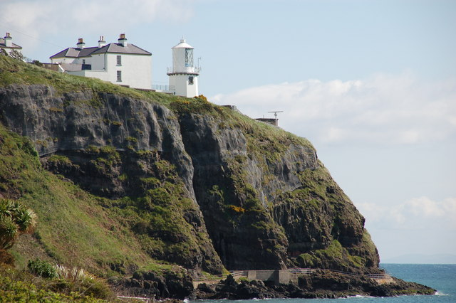 Blackhead Lighthouse, Belfast Lough. The Blackhead (sometimes "Black Head") lighthouse is one of three in Belfast Lough. It was built in 1901 and the light was first exhibited in 1902. It has been an automatic unwatched light since 1975.